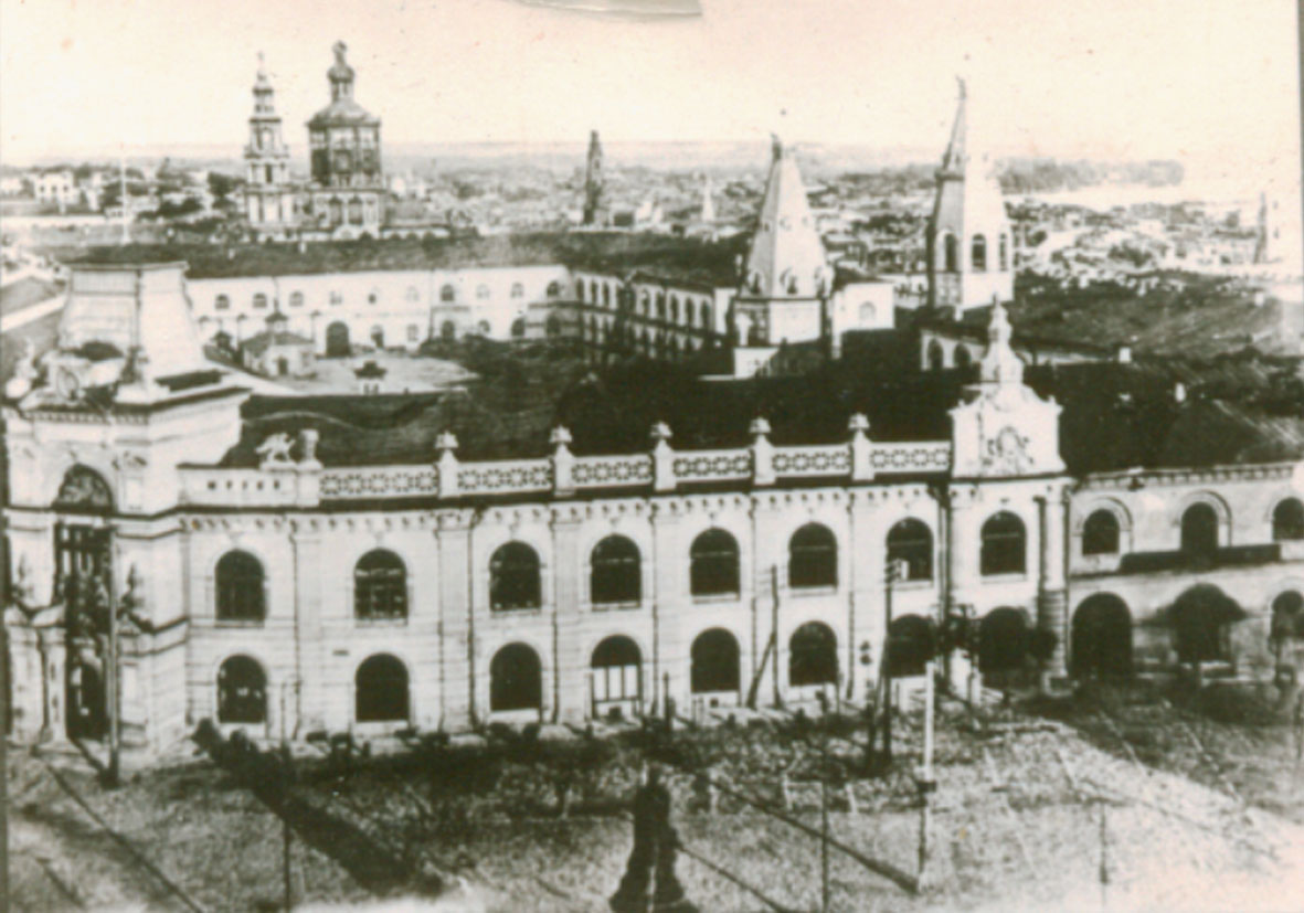 Gostinodvorskaya Church in Kazan